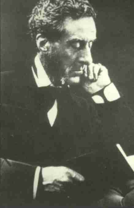 Anthony Ashley-Cooper, 7th Earl of Shaftesbury (1801-1885)